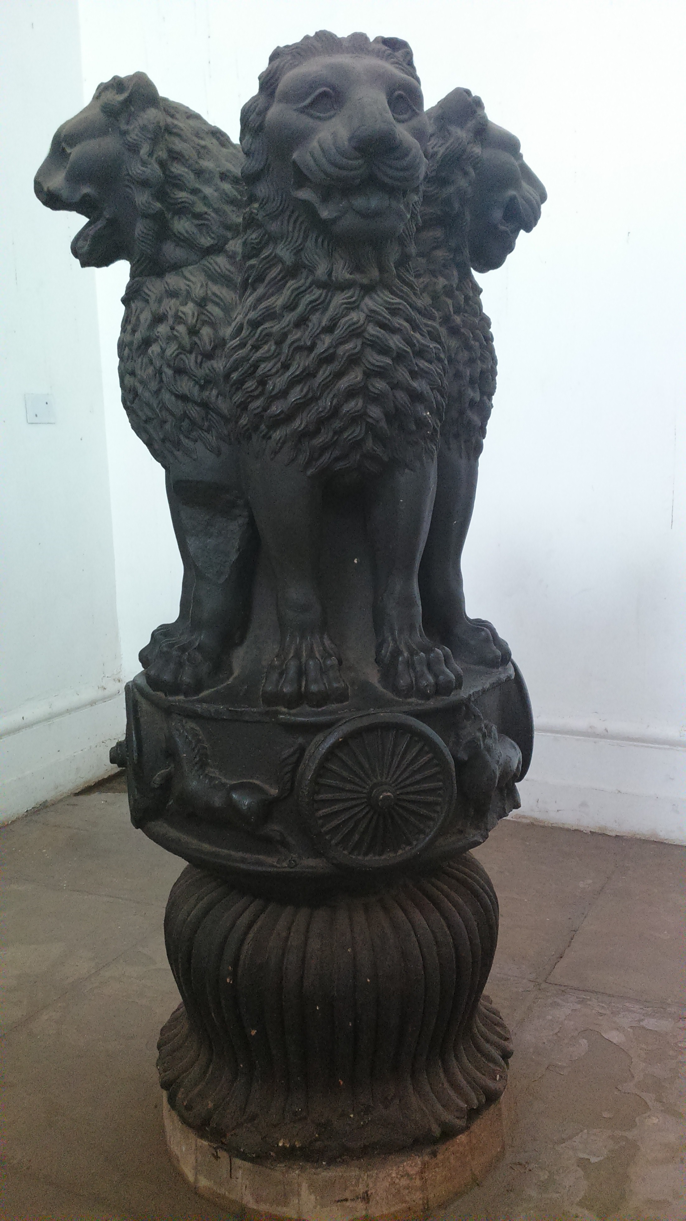 Ashok Stambha at Indian Museum, Kolkata